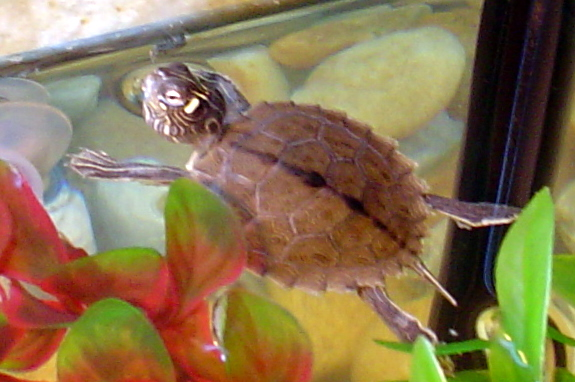 A picture of a month-old Graptemys ouachitensis, or Ouachita Map Turtle.